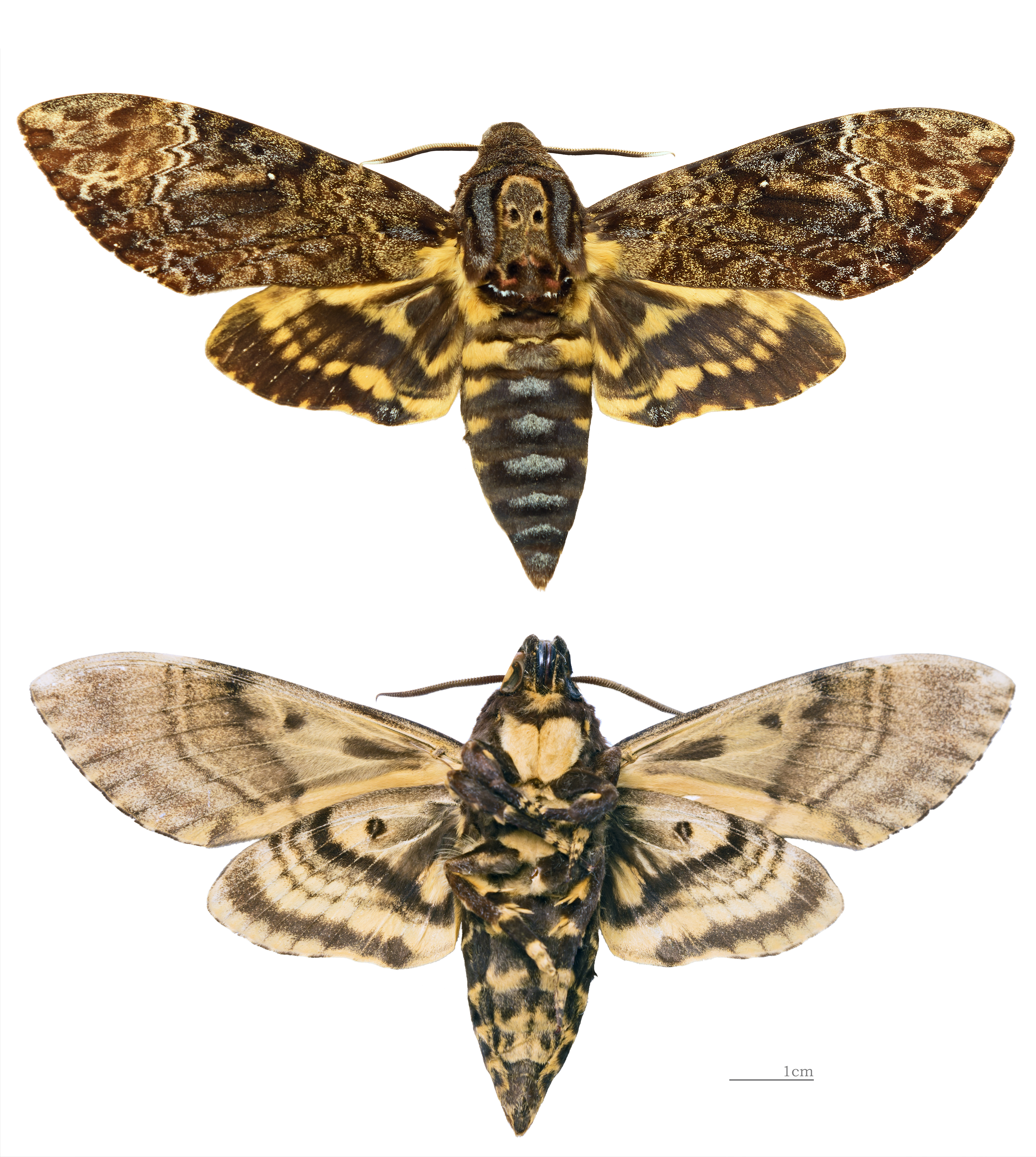 Acherontia lachesis - Two views of same specimen - Collection of mathematician Laurent Schwartz